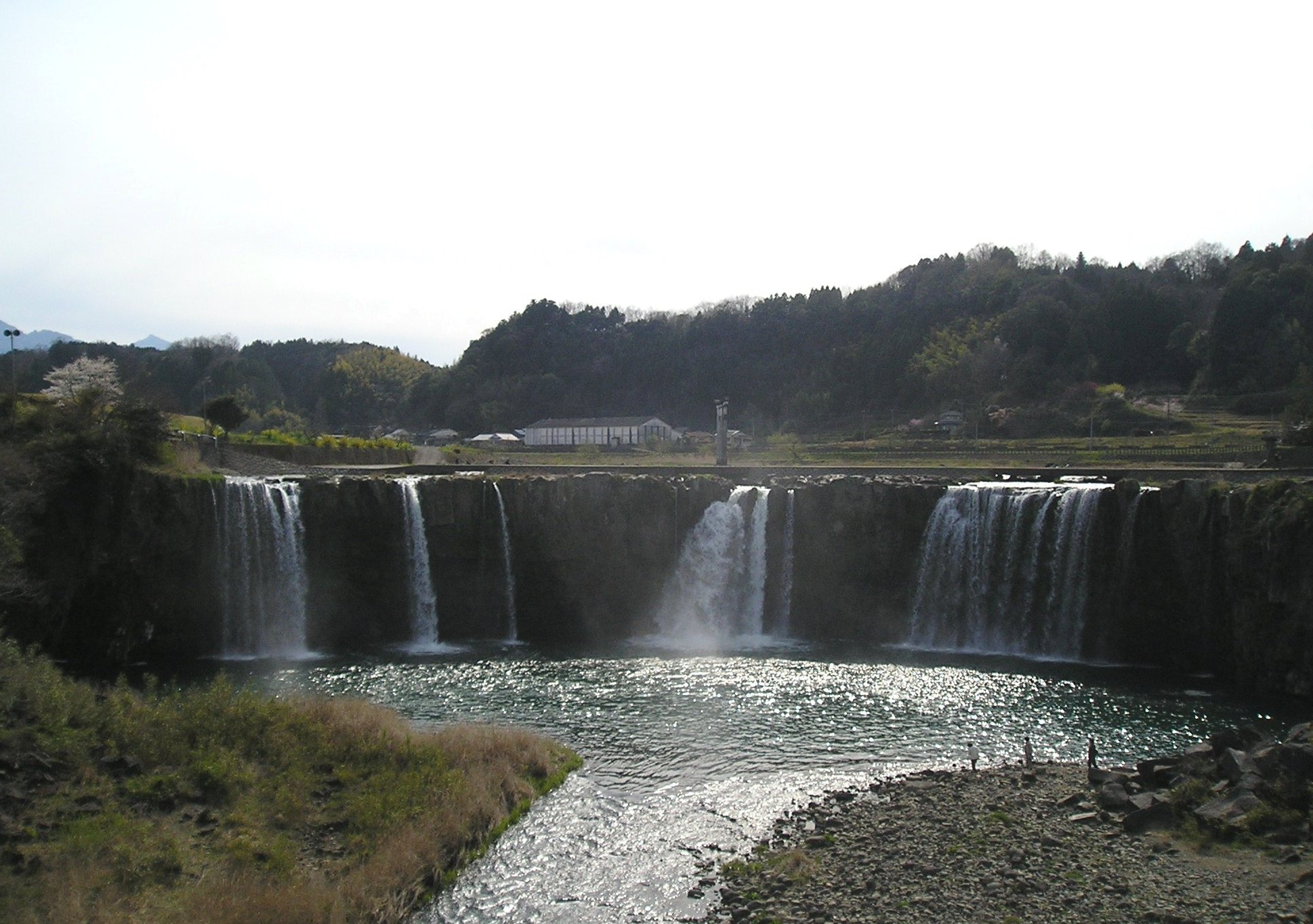 Harajiri Waterfall, Bungo-Ono, Oita, Japan